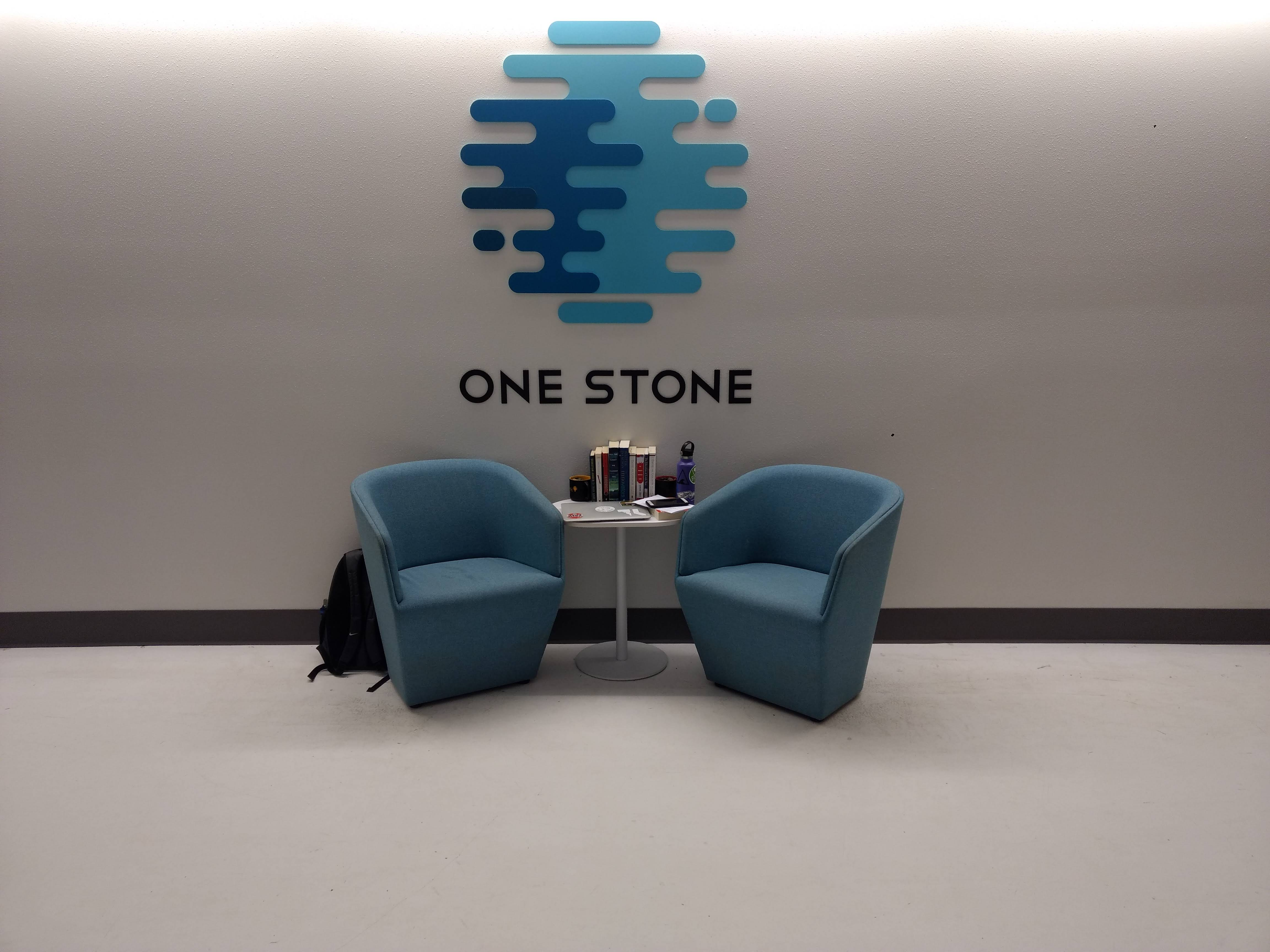 This is a picture of the entrance of One Stone.